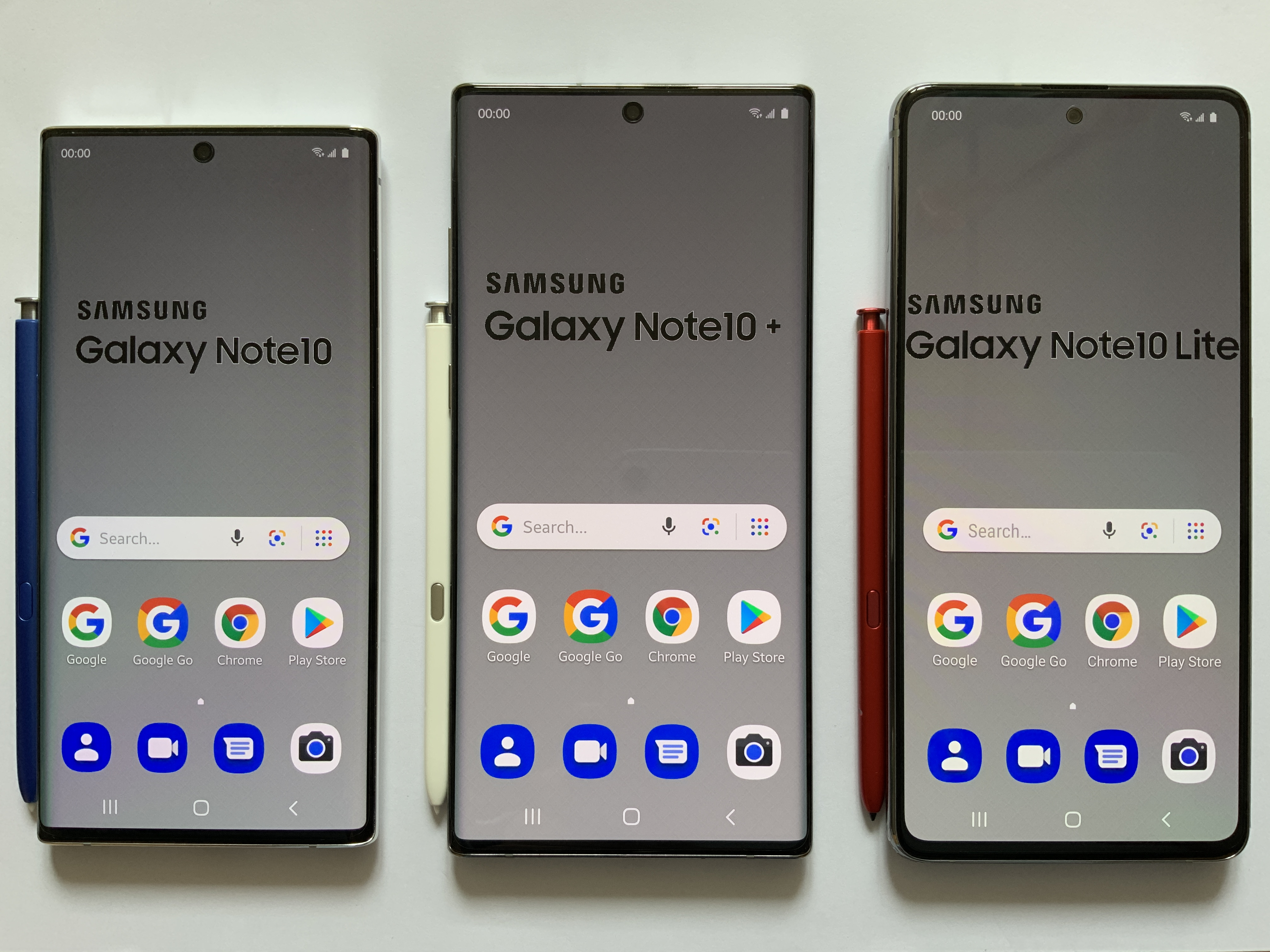 SAMSUNG Galaxy Note10 SAMSUNG Galaxy Note10+ SAMSUNG Galaxy Note10 Lite